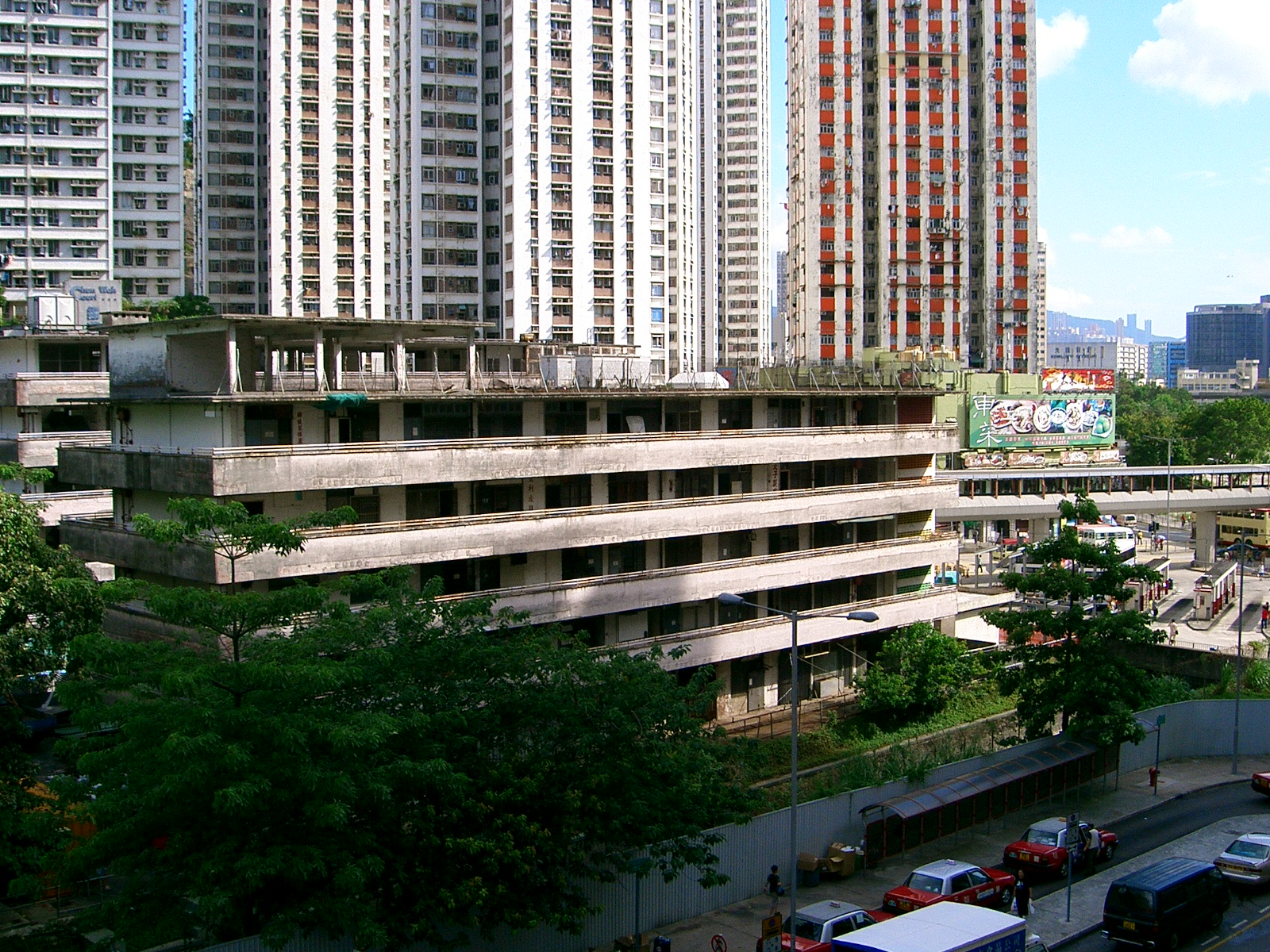 General view of Jordan Valley Factory Estate.